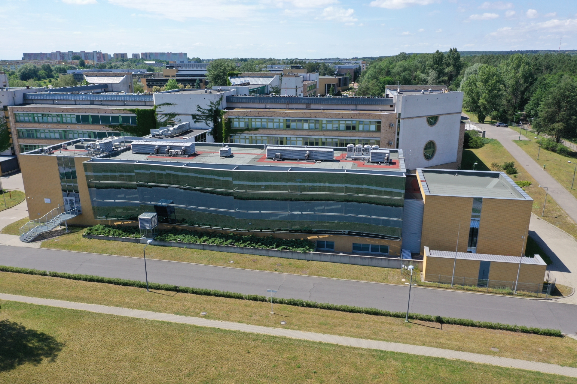 AMU NanoBioMedical Centre